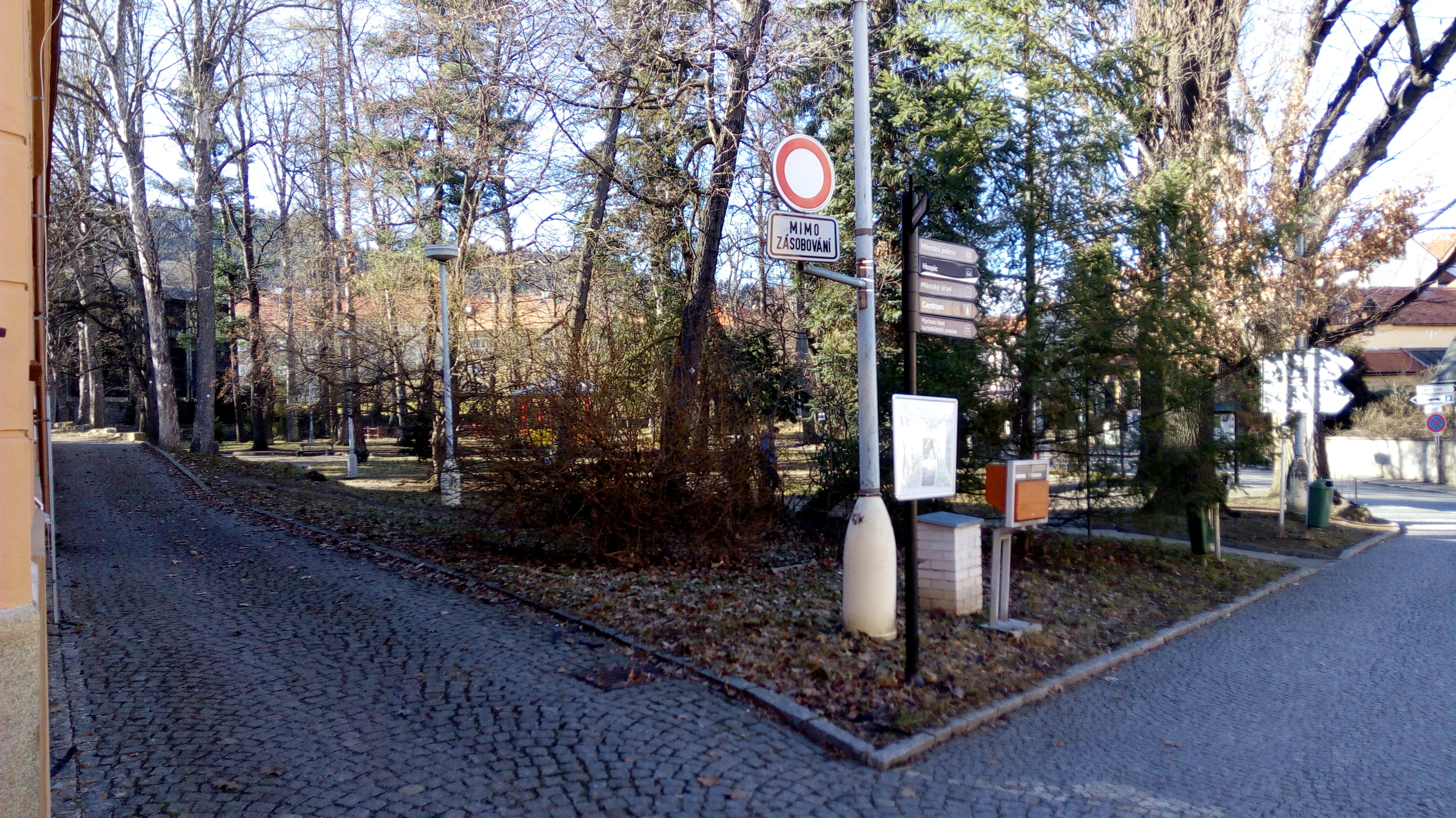 Štěpánčin park (Stephanie's Park), Prachatice, south Bohemia, Czech Republic, as seen from the east